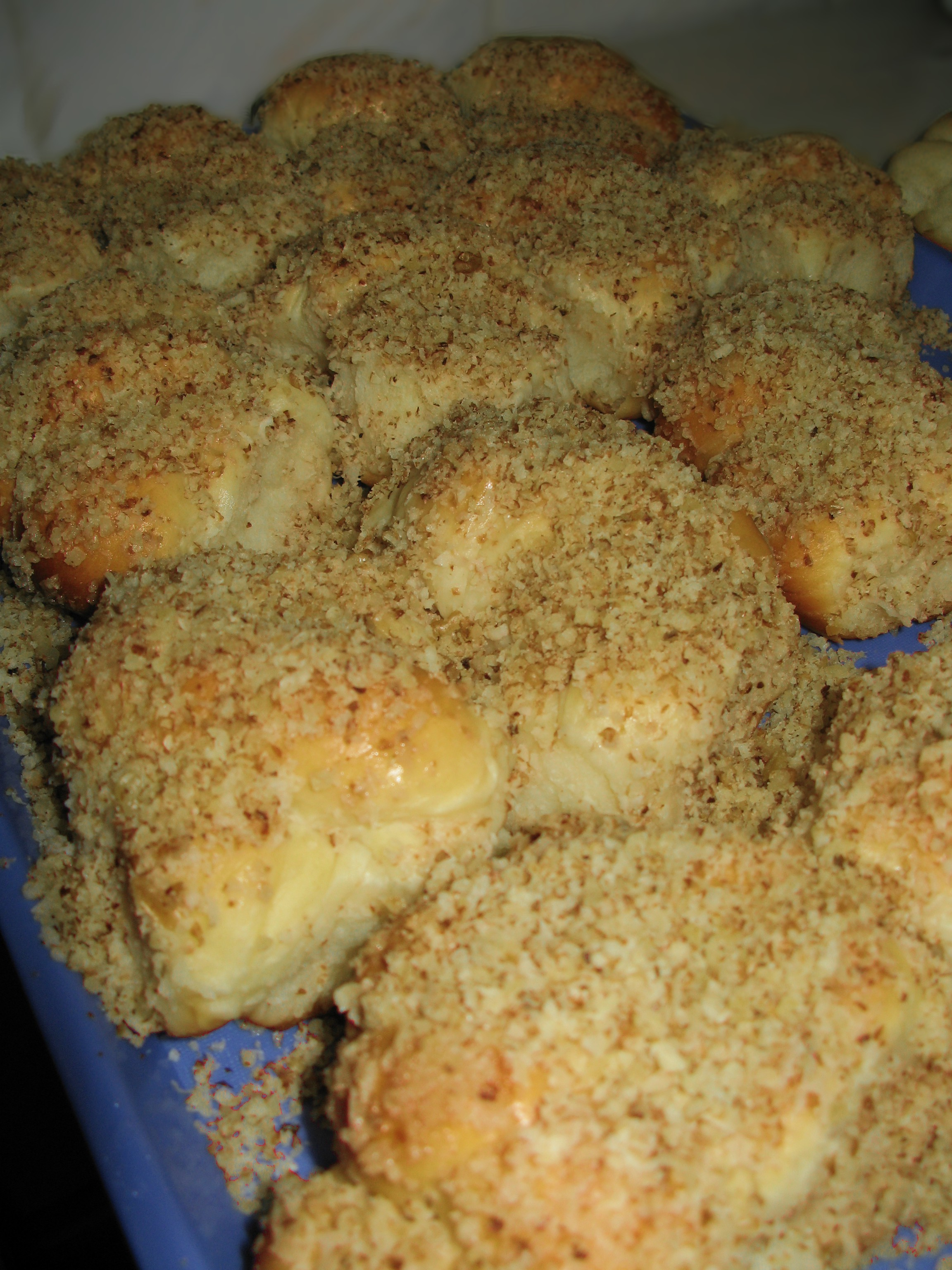 Sfințișori or mucenici (martyrs), traditional pastries from Romania made to commemorate the Christian feast of the 40 Martyrs of Sebaste, on March 9th.